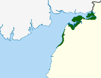 The Solway Coast AONB, in green.